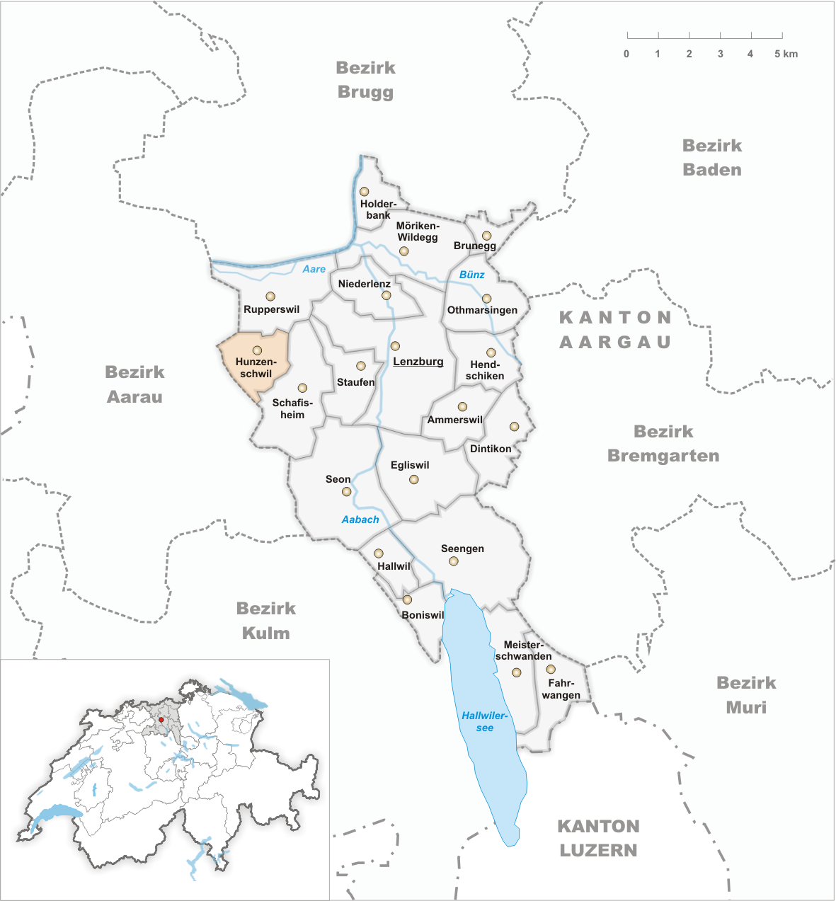 Municipality Hunzenschwil